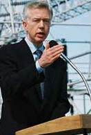 Governor Gray Davis giving a speech on energy.